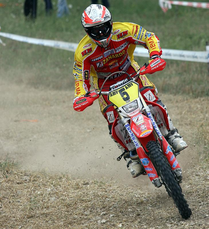 Alessandro Botturi riding his Honda E3 bike at the 2008 World Enduro Championship Grand Prix of Italy in Piediluco.